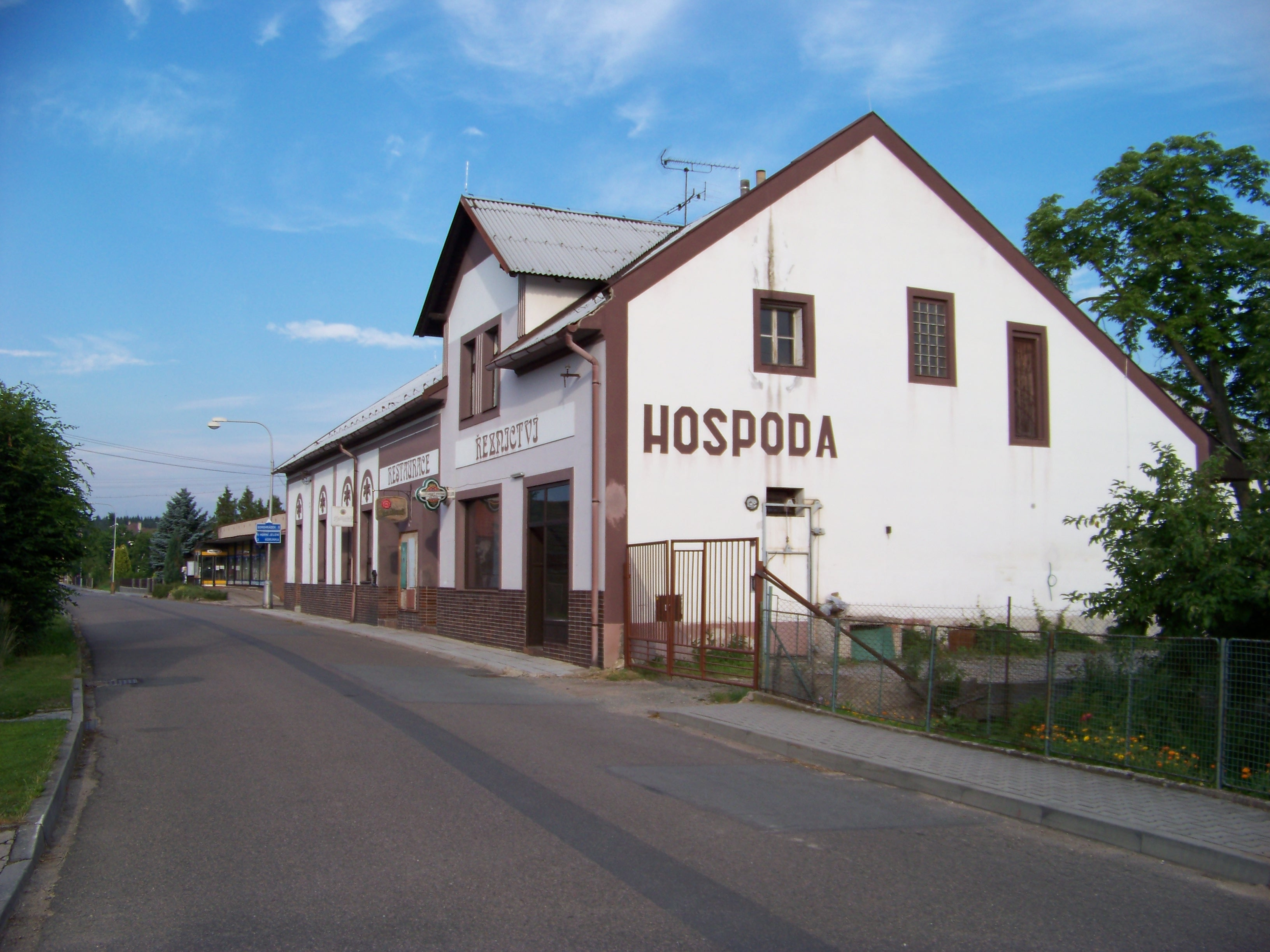 Čermná nad Orlicí-Malá Čermná, Rychnov nad Kněžnou District, Hradec Králové Region, the Czech Republic. A restaurant and butchers. - OpenStreetMap(Info)